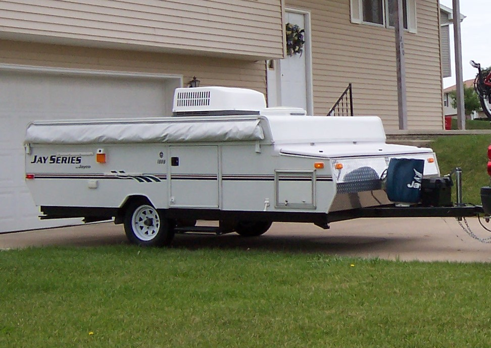 Jayco 1006 Pop-up Camper Trailer - closed for travel